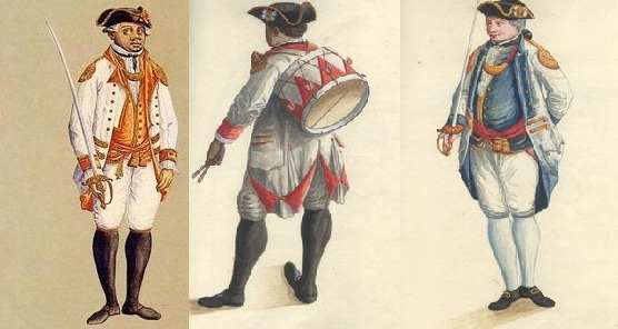 Military of the auxiliary Tercio of colonial Brazil.